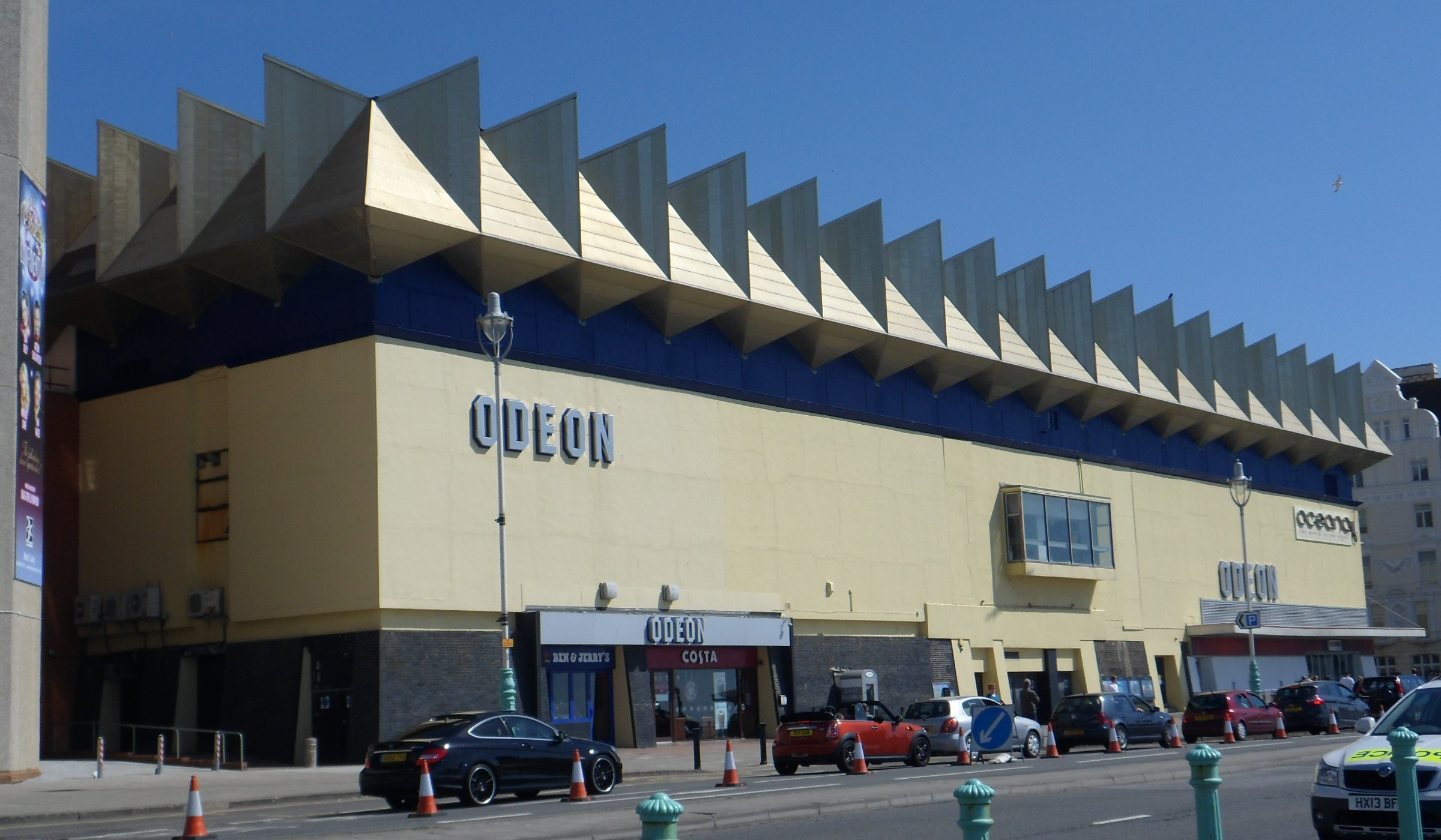 Brighton Odeon Kingswest Cinema, Junction of Kings Road and West Street, Brighton, City of Brighton and Hove, England. Built in 1973 on this prominent seafront site. The Brighton Centre adjoins to the left.